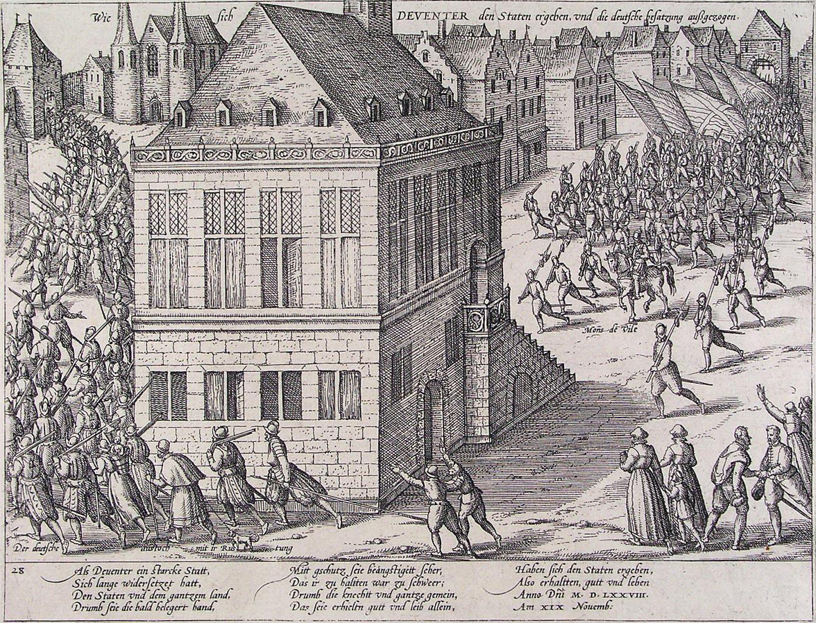 Deventer taken by the Dutch forces (Staten) after the siege of Deventer in 1578. German forces retreat. Etching. Rotterdam, Museum Boijmans Van Beuningen Prentenkabinet (inv.no. BdH 26252 (PK)).